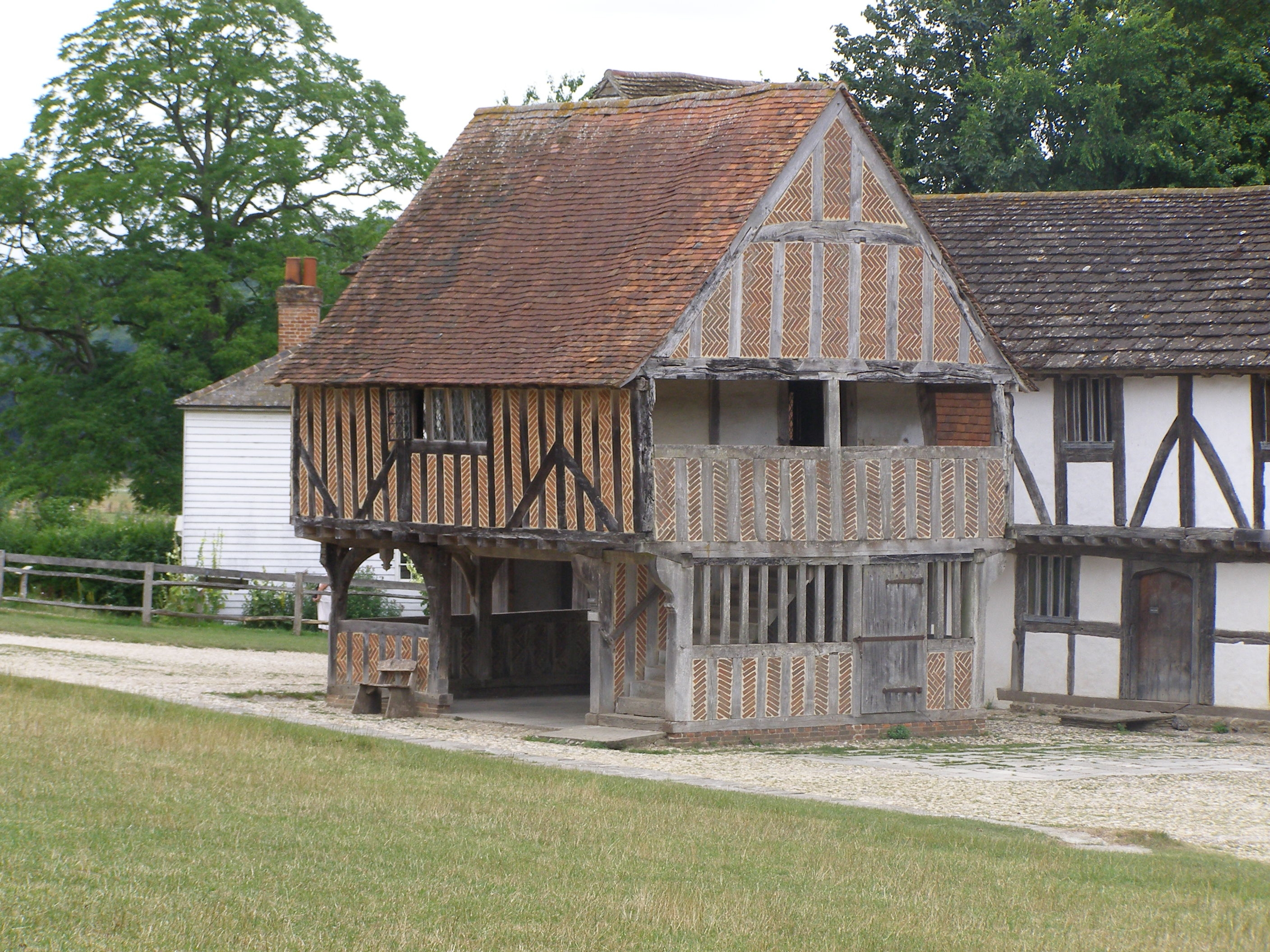 1620s Market Hall from Titchfield in Hampshire on display at the Weald and Downland Open Air Museum near Chichester West Sussex England.